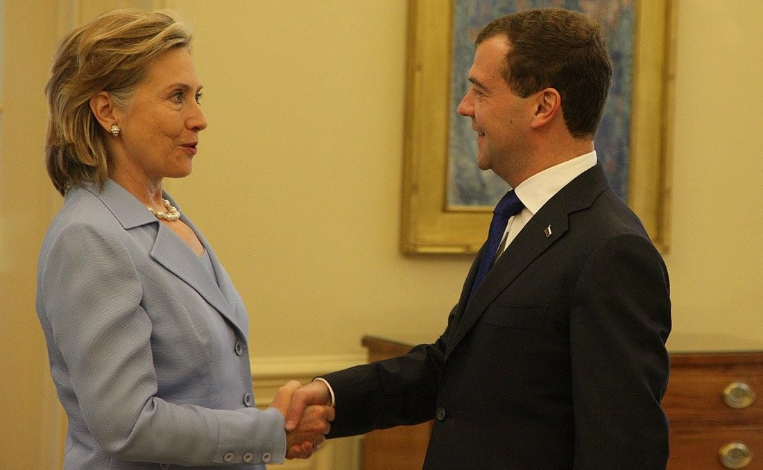 With US Secretary of State Hillary Clinton.